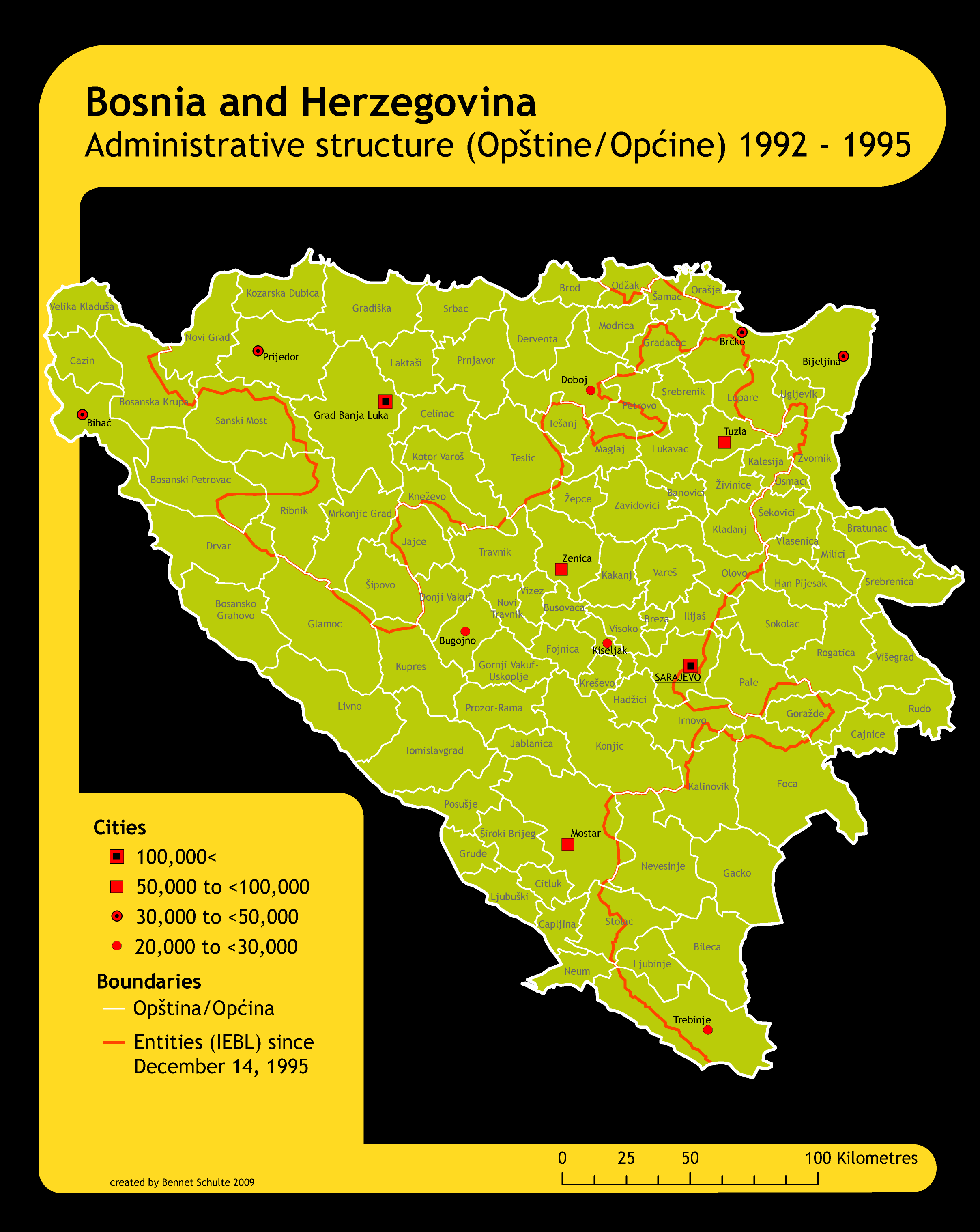 The map shows the administrative structure of the pre-war Bonia and Herzegovina 1992-1995